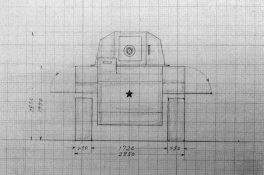 Imperial Japanese Army Experimental 105mm anti-tank self-propelled gun (tank destroyer) Ka-To. A plan illustrating the front view.